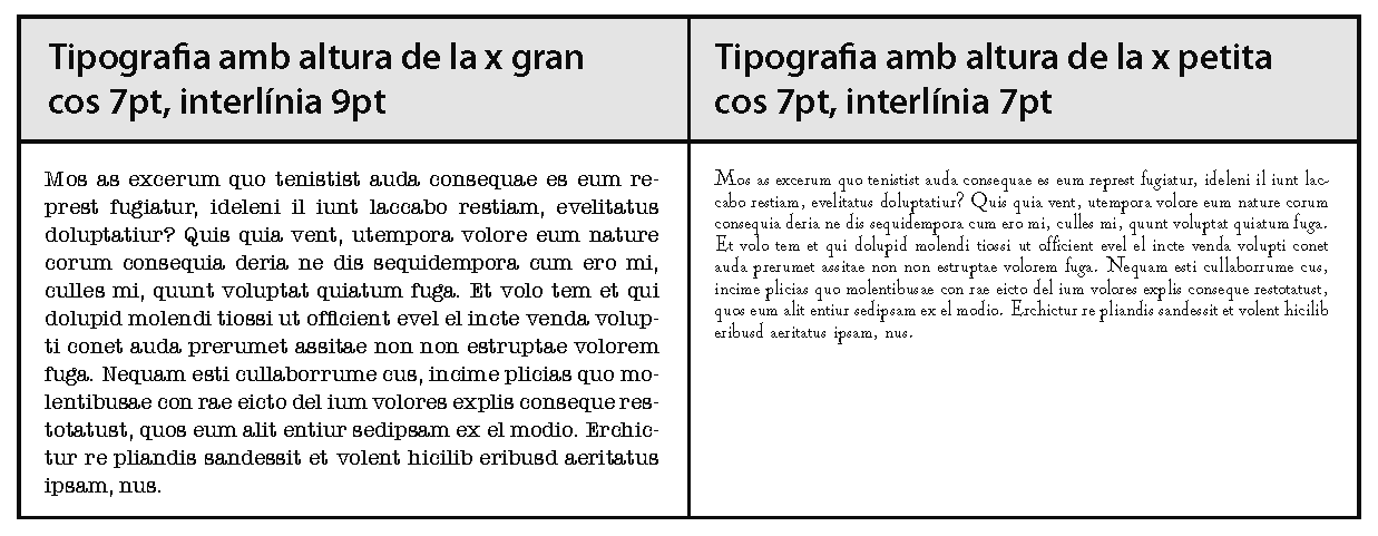 Comparative legibility of two texts in small font sizes with different x heights.